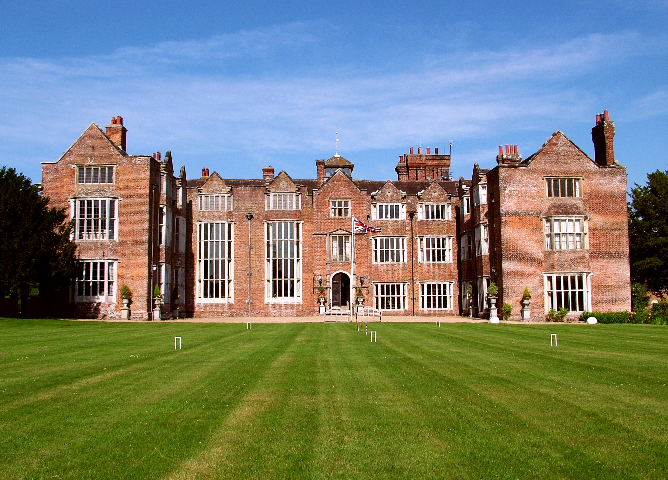 Danny is an impressive Grade I listed Elizabethan red brick Mansion near Hurstpierpoint in West Sussex, England.